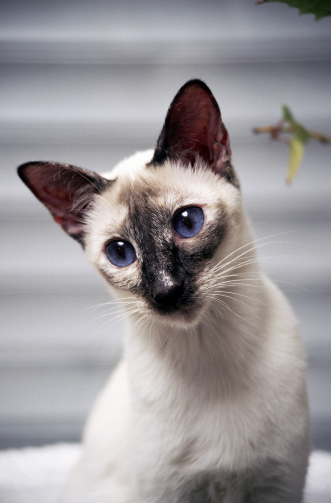 Female siamese cat Seal Tortie Point, 1987. Name: Taschina de la Chat